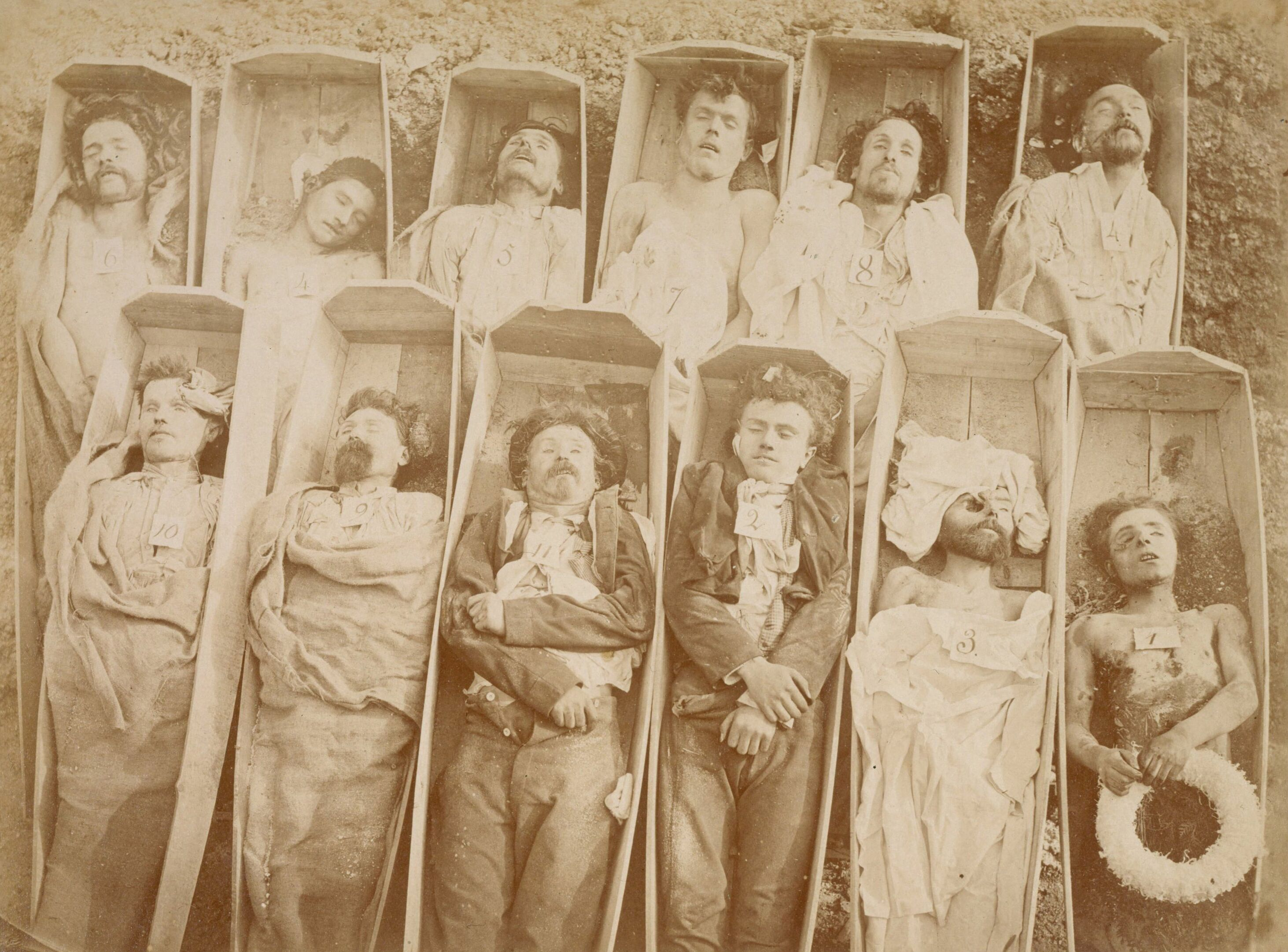 Corps of the combatants of the Paris Commune arranged in coffins. These men were shot by the Versailles army in May 1871.